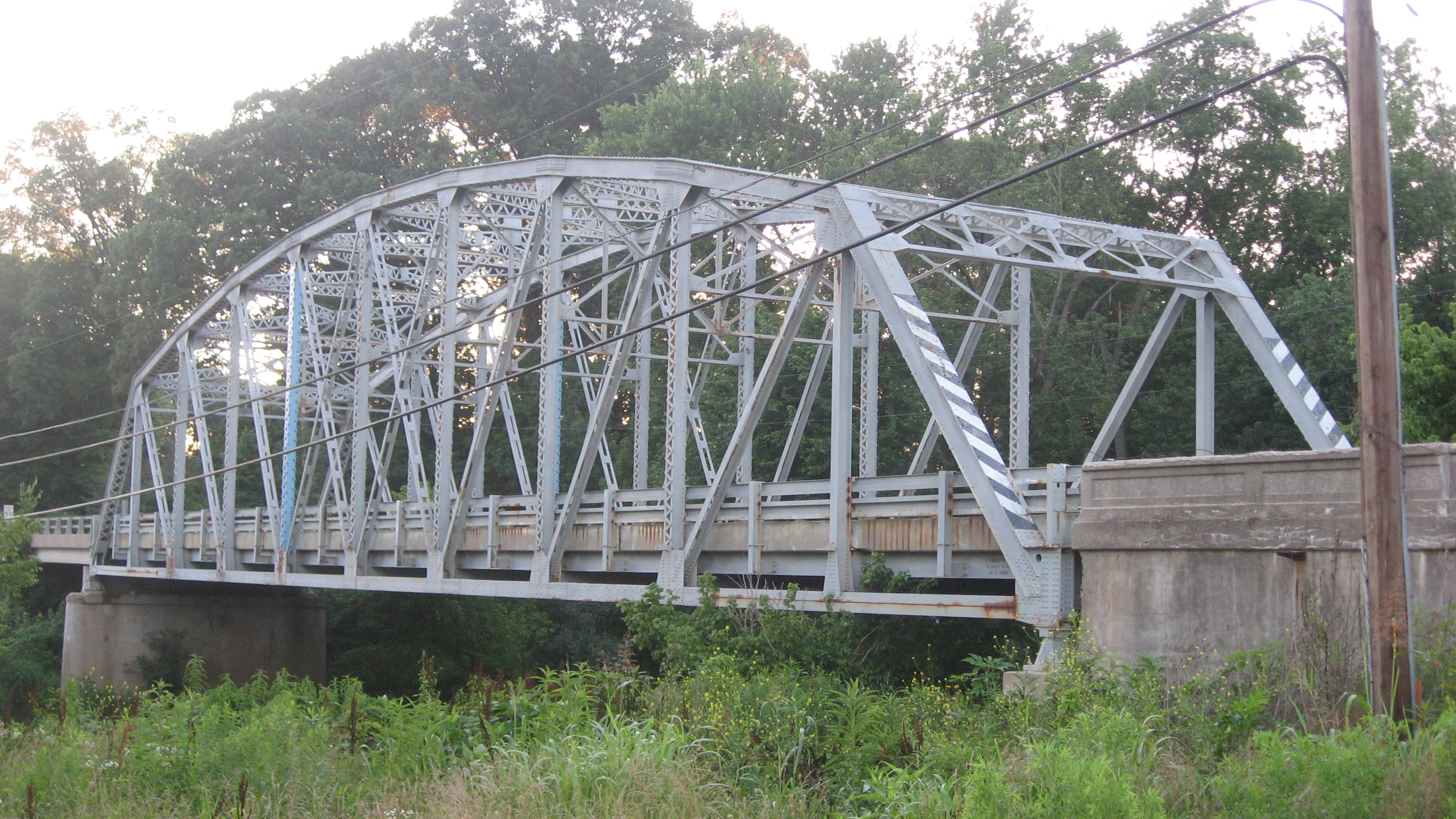 Southern (downstream) side and eastern portal of the Indiana State Highway Bridge 42-11-3101, which carries State Road 42 over the Eel River west of Poland in Cass Township, Clay County, Indiana, United States. Built in 1939, it is listed on the National Register of Historic Places.